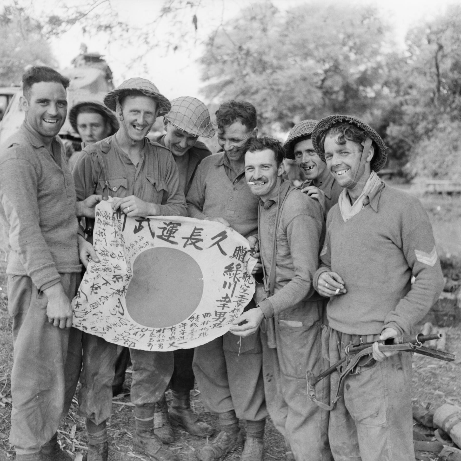 IWM caption : THE BRITISH ARMY IN BURMA 1945. Men of the Royal Scots pose for a photograph with a Japanese flag taken as a souvenir after clearing the Japanese from Payan, near Shwebo, January 1945.